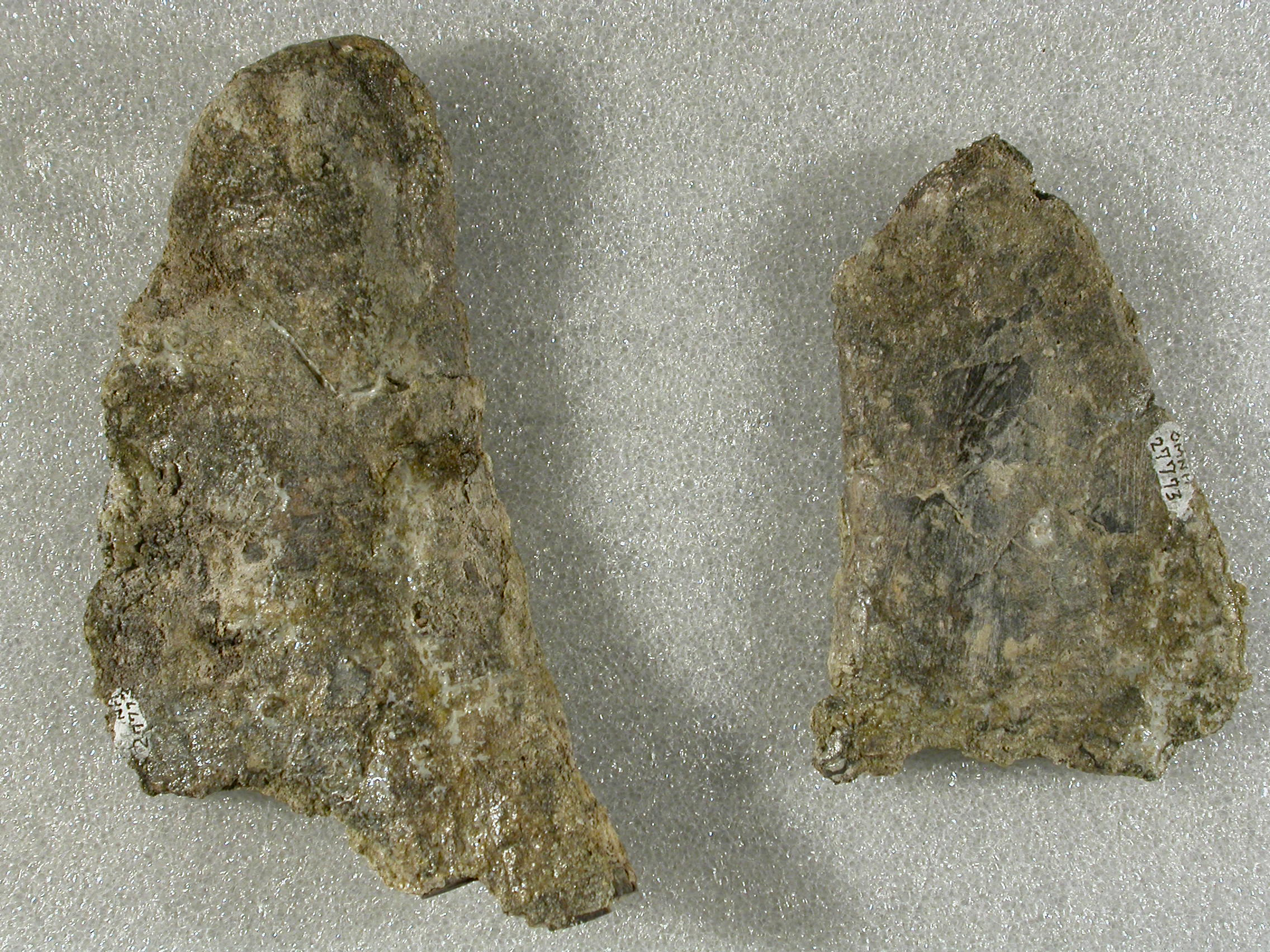 Alternate photo of the sternals of Brontomerus mcintoshi.